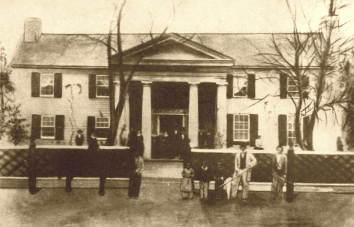 Rose Cottage, antebellum home of Principal Chief John Ross, of the Cherokee Nation. Located on Ross' plantation at Park Hill, Indian Territory, it was burned by General Stand Watie in 1863.